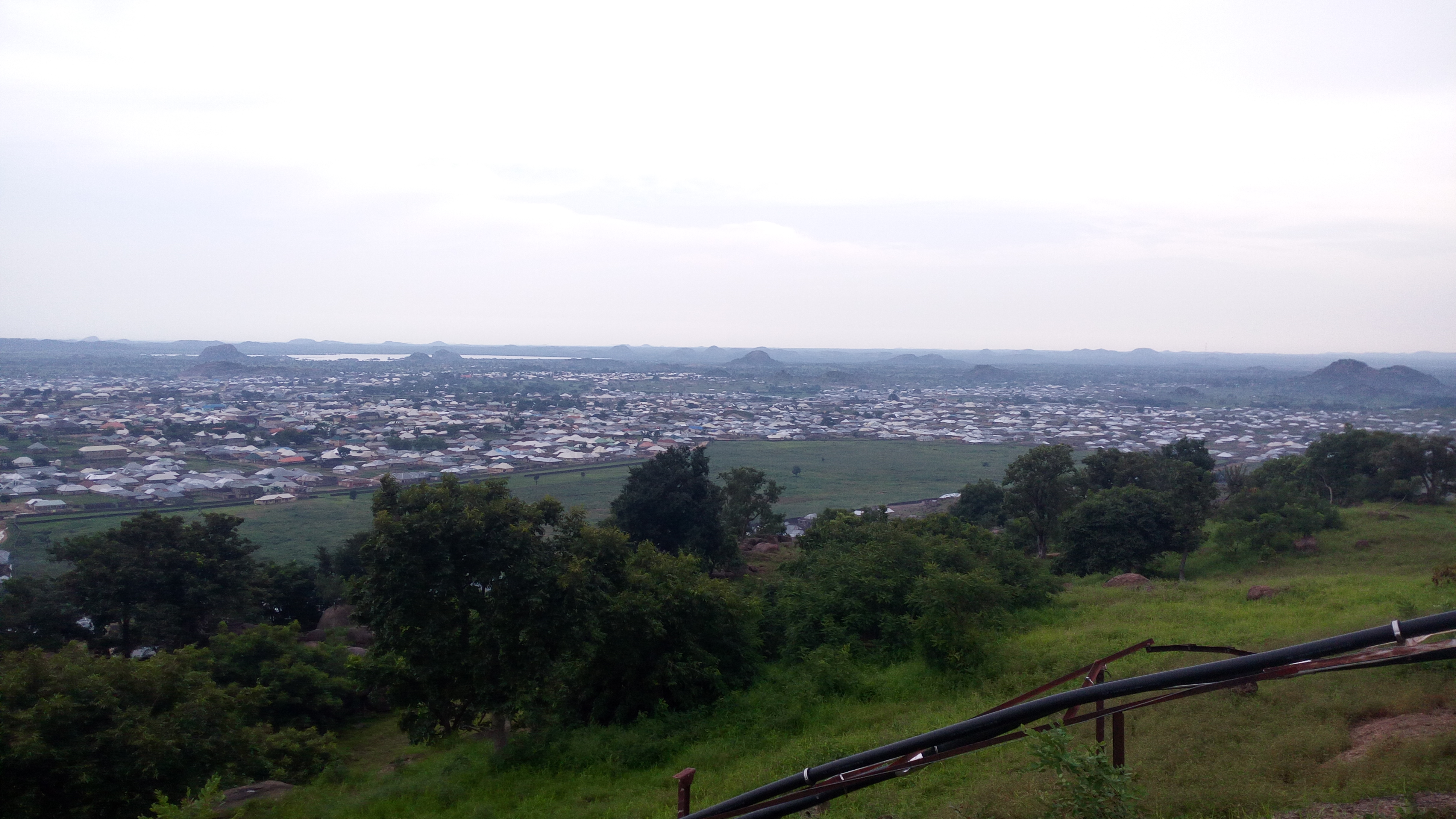 These represent how nature and lack of proper town planning of houses.